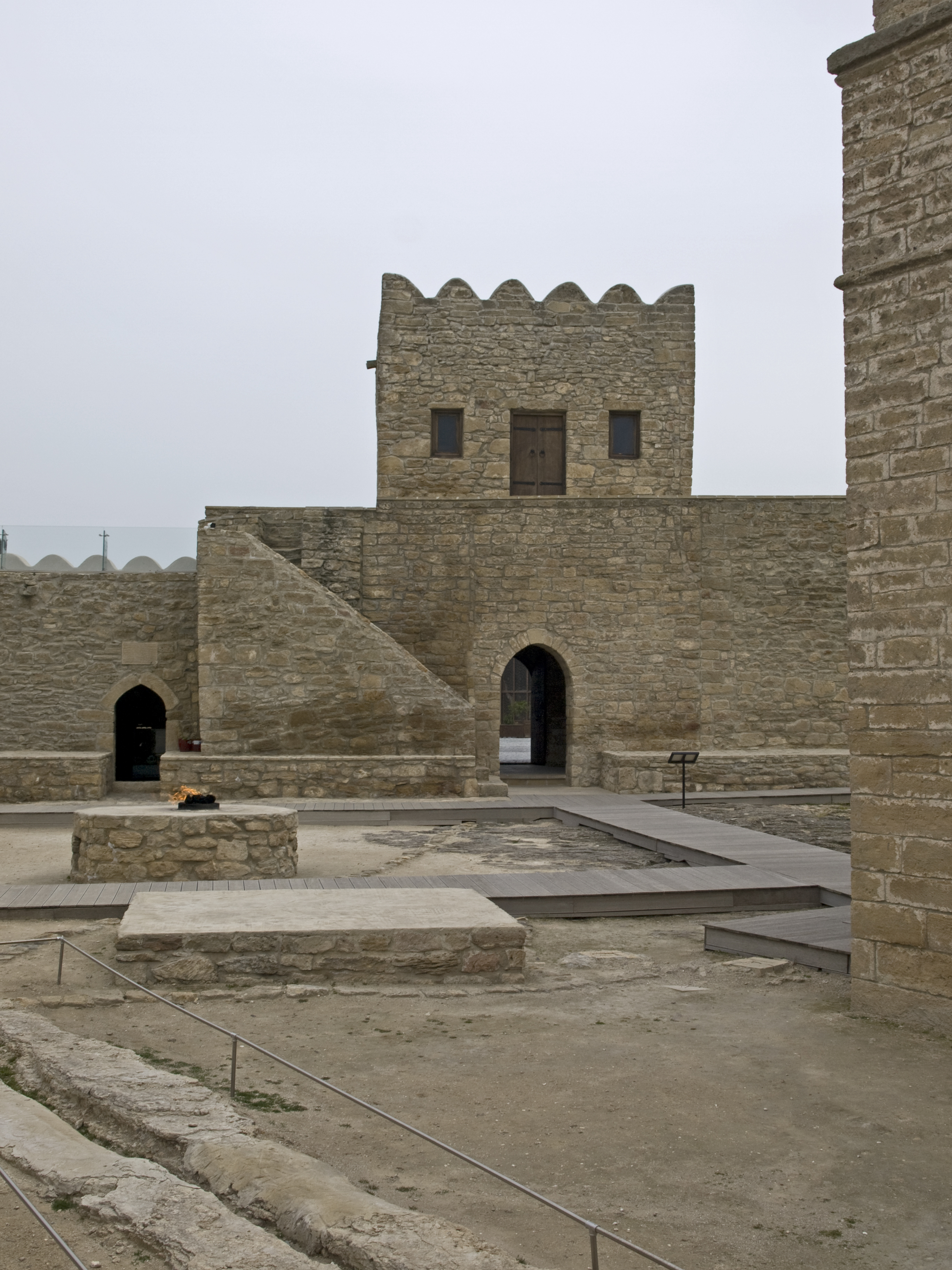 Tower, Ateshgah of Baku